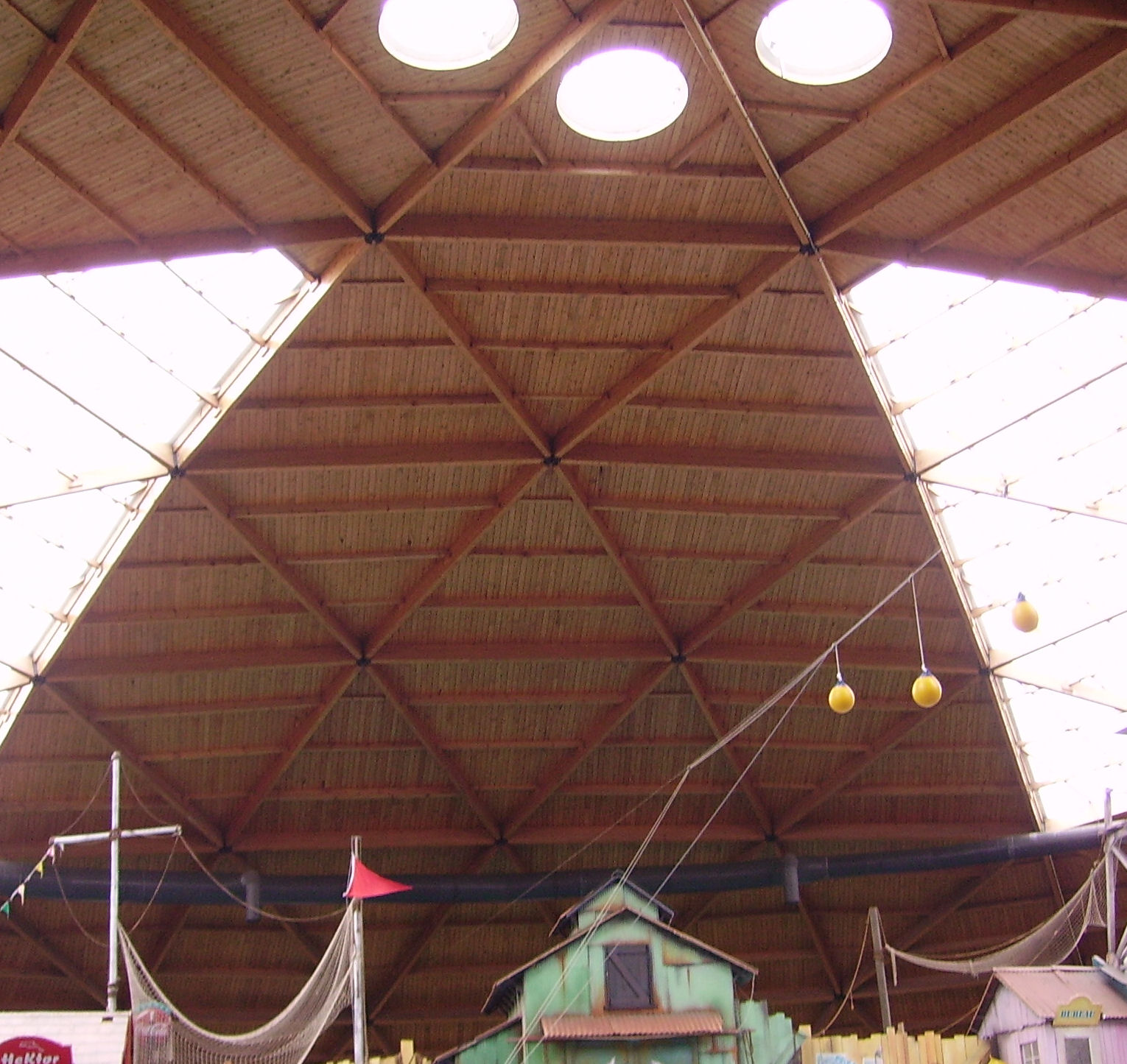 Boudewijnpark near Brugge, Belgium